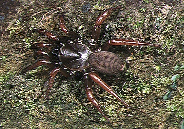 female Latouchia formosensis from Okinawa.